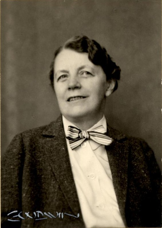 Doctor Ada Nilsson in the late 1920s/early 1930s (1935, as mentioned at the external source, is clearly impossible since Goodwin died 1931. It must be assumed that the photo was from before 1931, and she only signed it in 1935.)